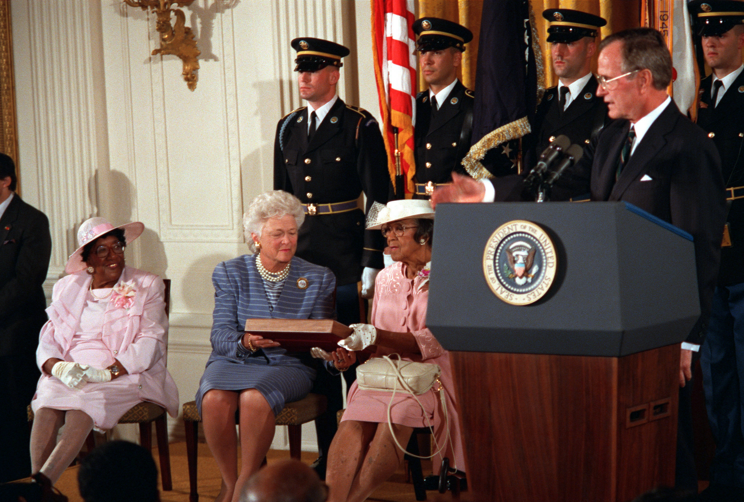 After the posthumous presentation of the Medal of Honor made today at the White House to the sisters of Corporal (CPL) Freddie Stowers, a native of Anderson County, South Carolina, for action during World War I by President George H. W. Bush, Mrs. Barbara Bush and Mary Bowens admire the Medal of Honor certificate. Ms Bowens is CPL Stowers' sister. His other sister Georgina Palmer (far left) looks on. CPL Stowers is the only Black American to receive the Medal for action during World War I.